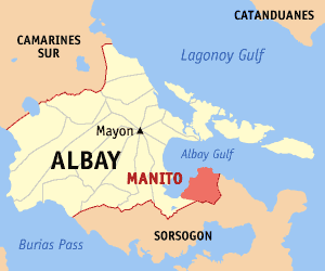 Locator map of Manito in Albay, Philippines.